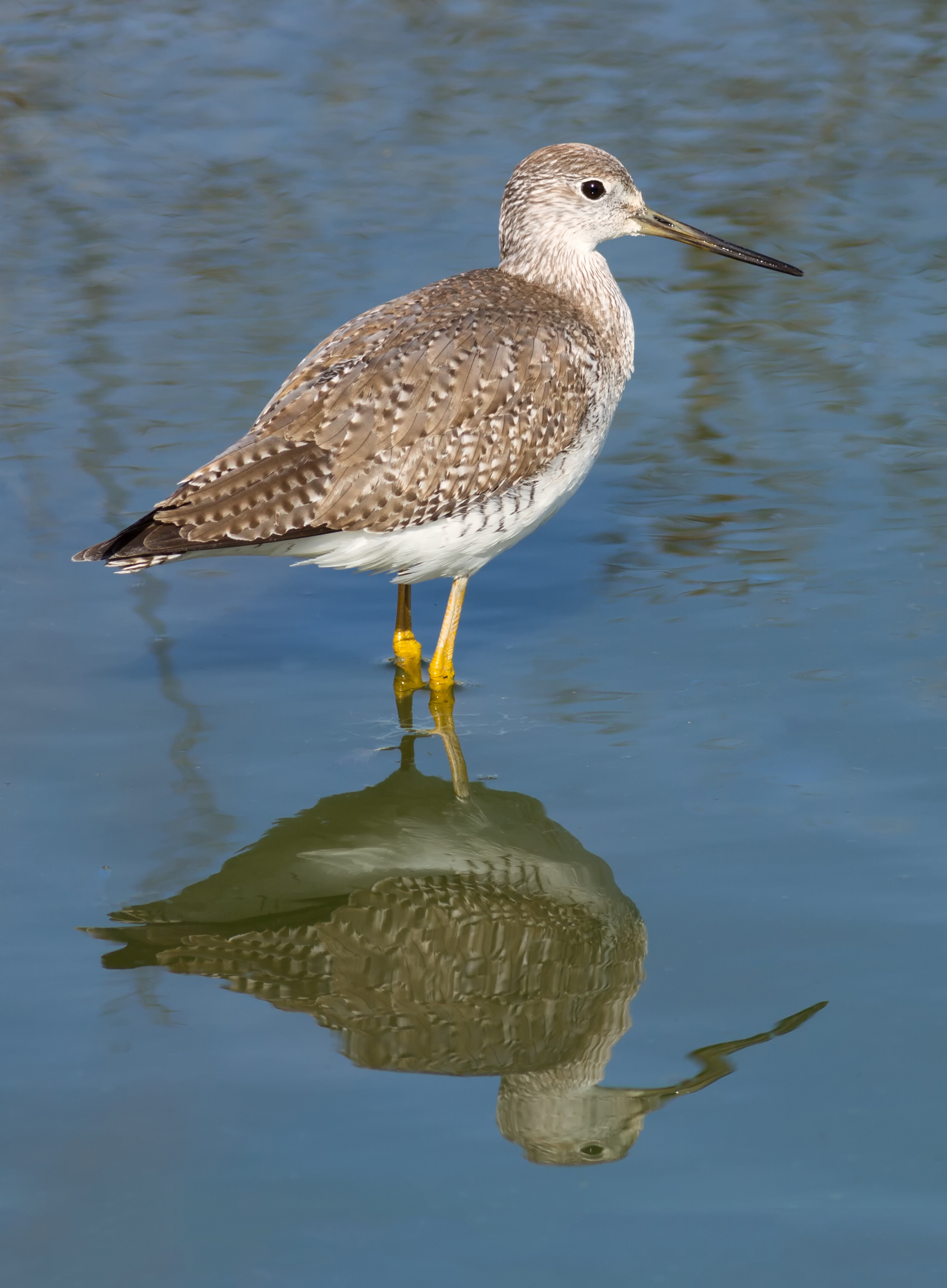 Greater Yellowlegs (Tringa melanoleuca) at Las Gallinas Wildlife Ponds, San Rafael, California.